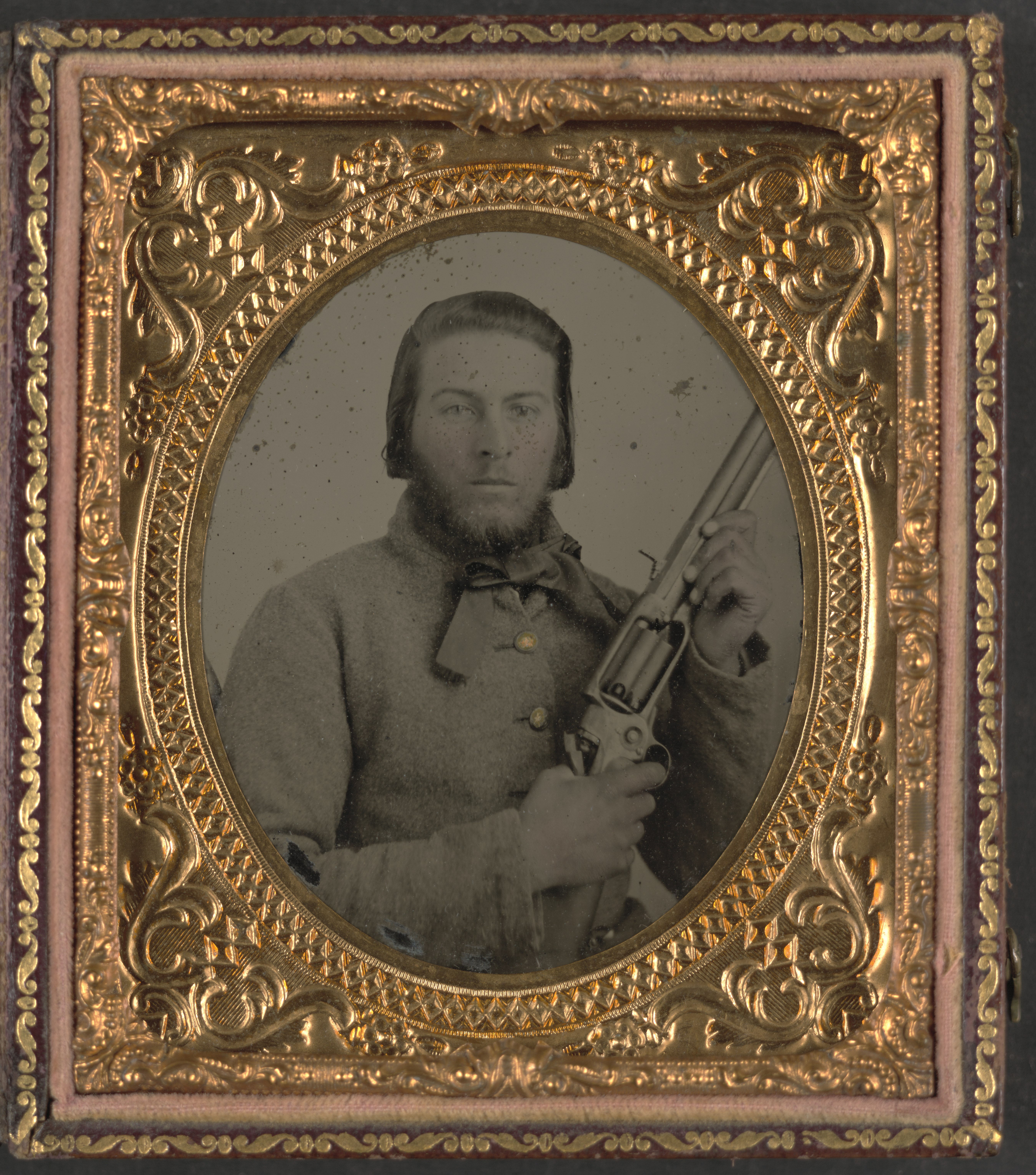 Title: Unidentified soldier from North Carolina with Model 1855 Colt revolving rifle Abstract/medium: 1 photograph : hand-colored ambrotype ; plate 83 x 70 mm (sixth plate format), case 93 x 81 mm.